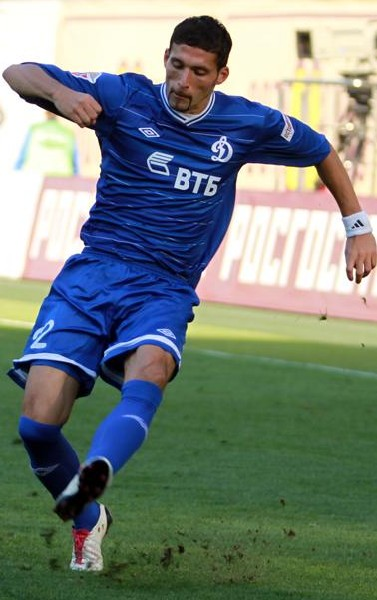 Kevin Kuranyi